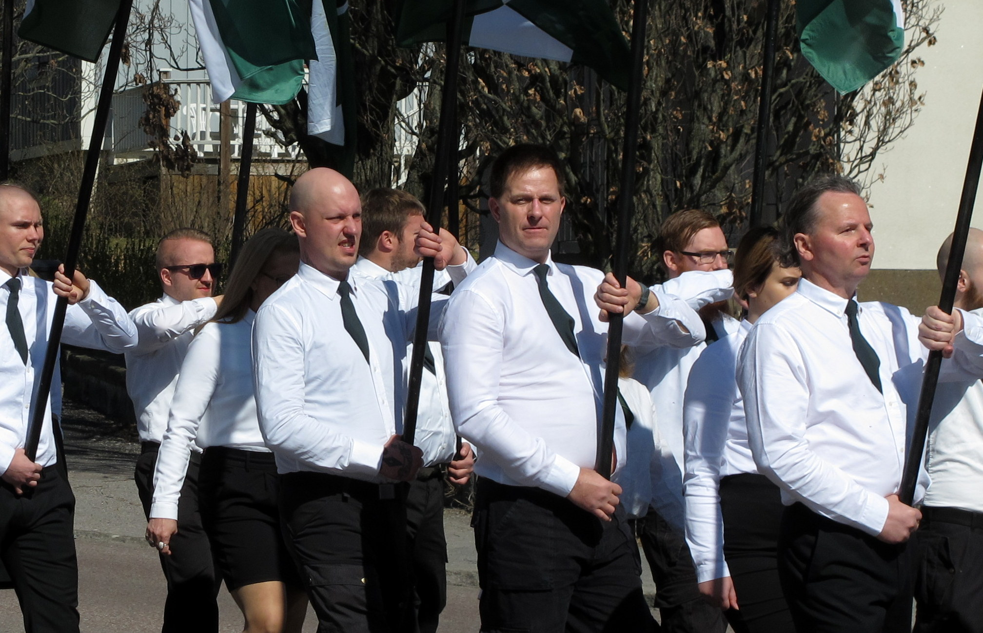 Nordic resistance movement marching i Falun, Sweden.